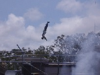 Scène from the Police Academy Stunt Show